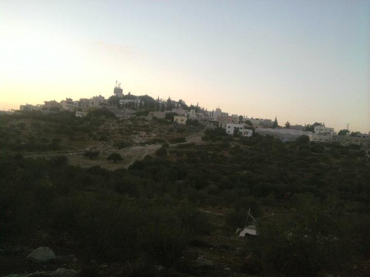 الحارة الجنوبية